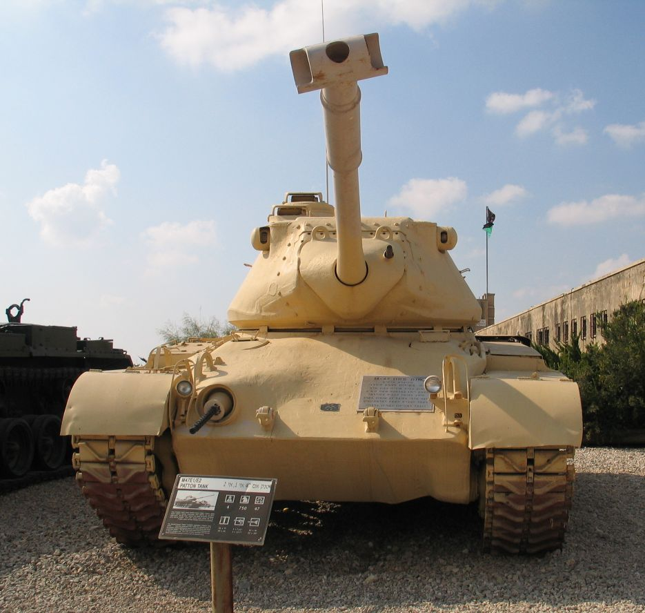 Description: Captured Jordanian M47 Patton in Yad la-Shiryon Museum, Israel. 2005. Source: Photo by me, User:Bukvoed.